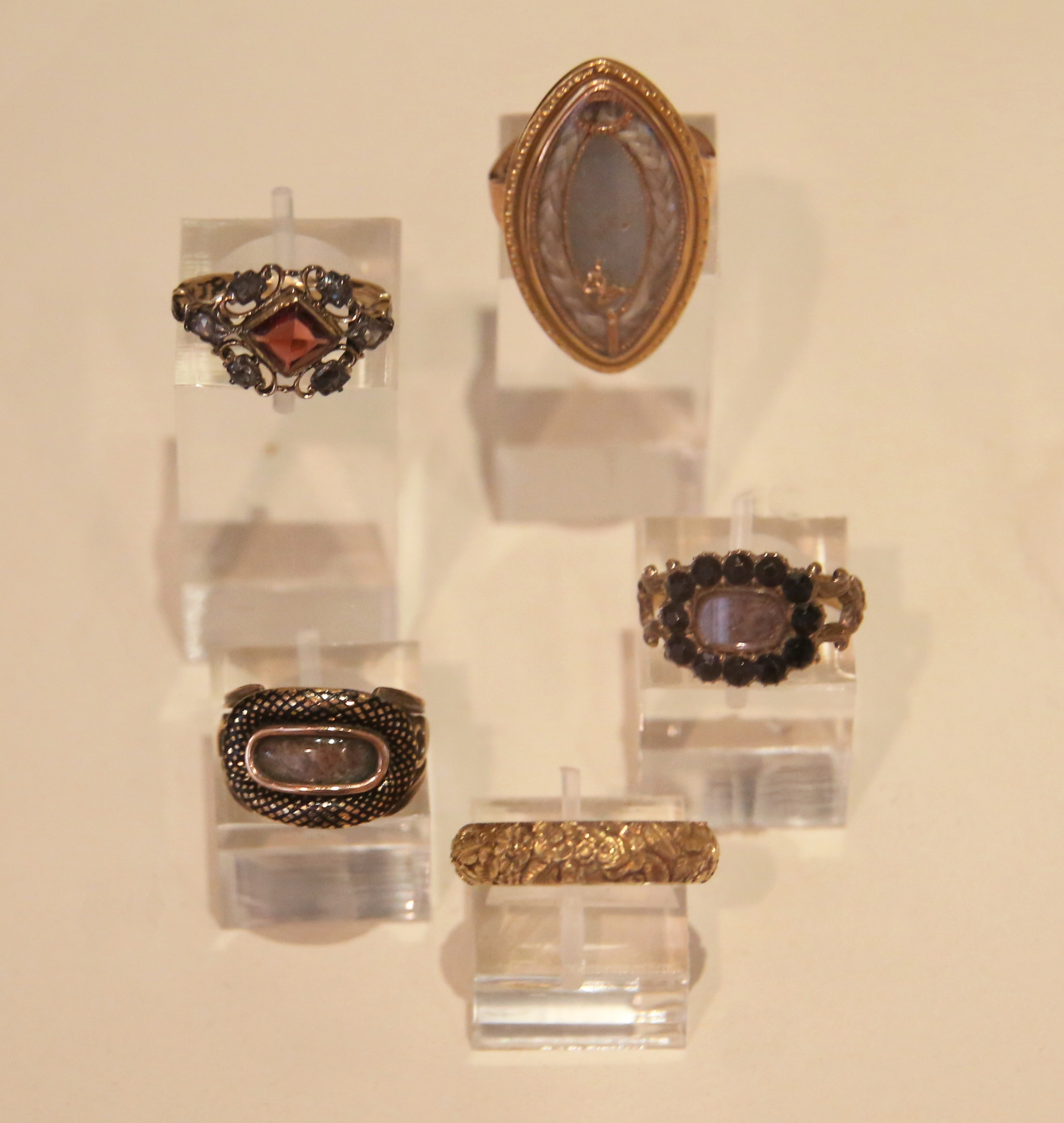 Photo of 5 mourning rings. Clockwise from top left 1745 gold with garnet and diamonds 1783 gold with hair 1826 Gold 1819 gold and hair 1810 Gold and hair